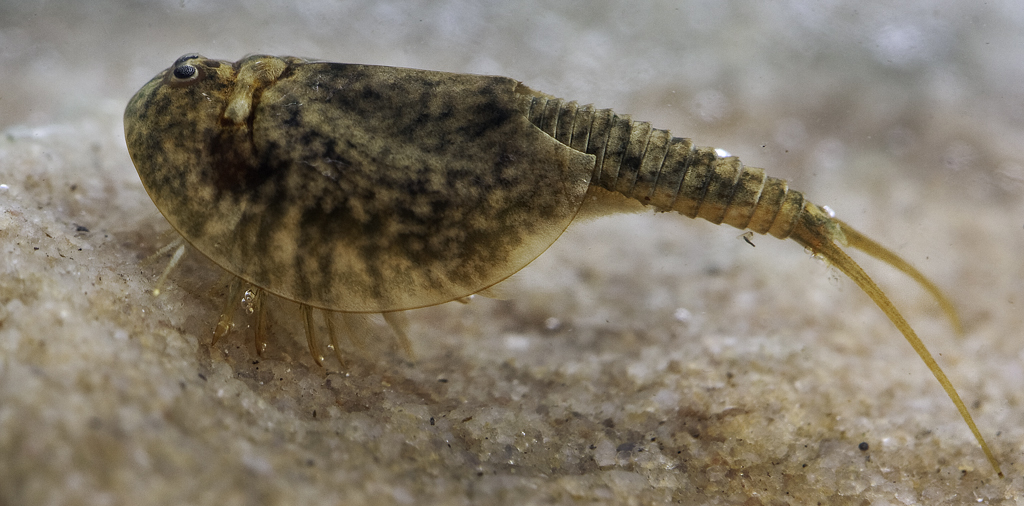 Lepudurus. Bear Island, Norway